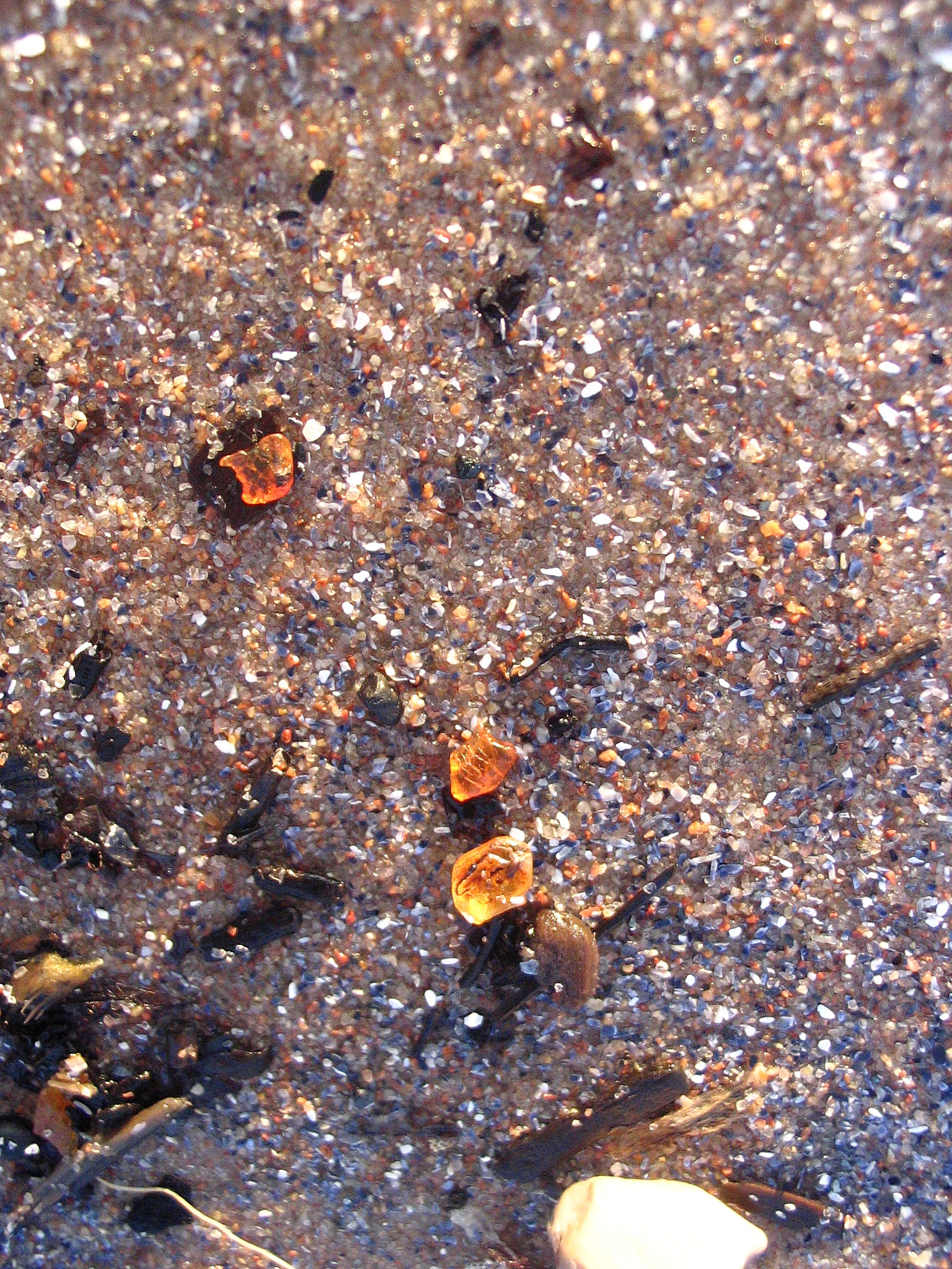 Amber of Baltic sea.